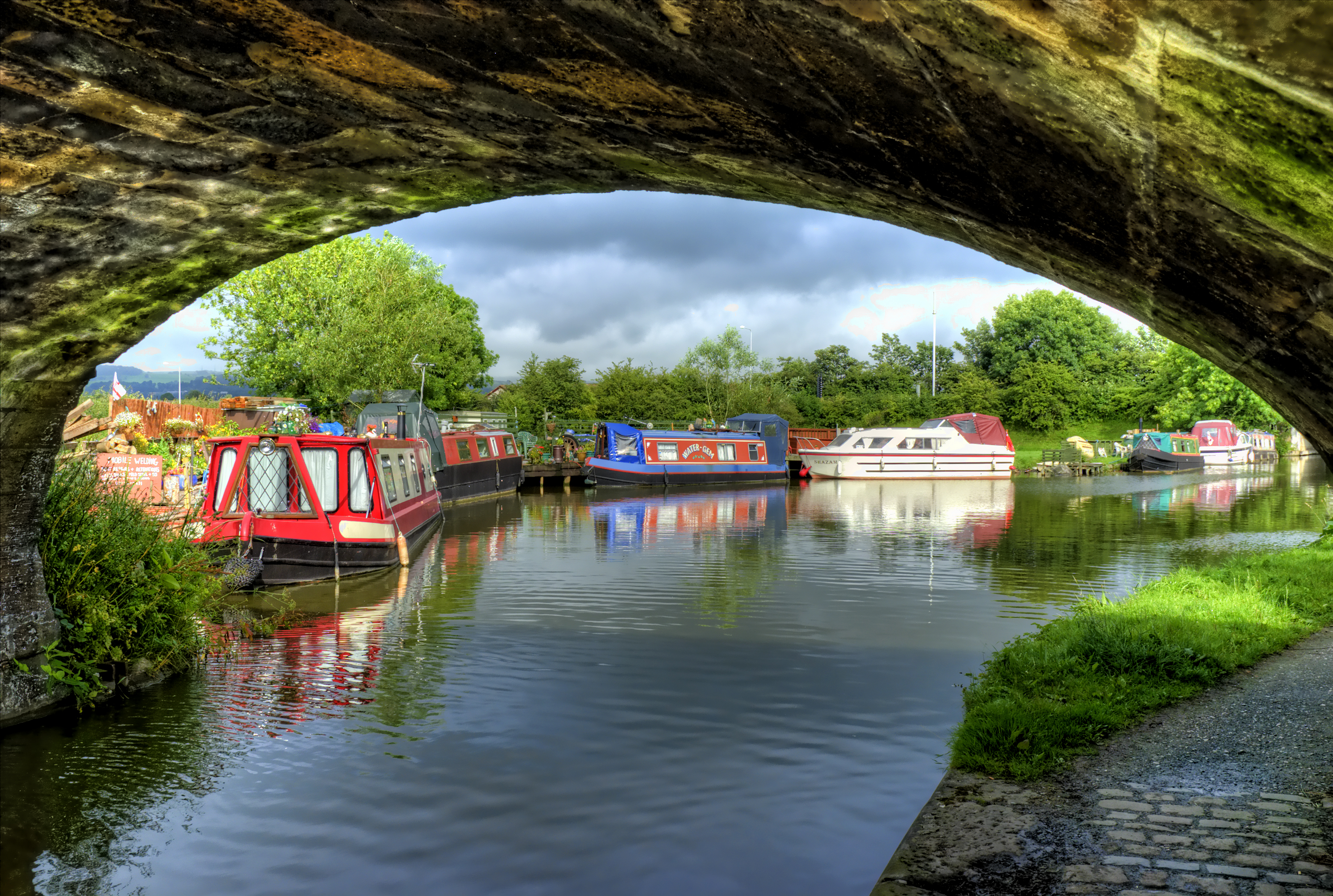 Author: Chris Kirk, image taken July 2010 in Garstang, Lancashire Summary Author: Chris Kirk, image taken July 2010 in Garstang, Lancashire